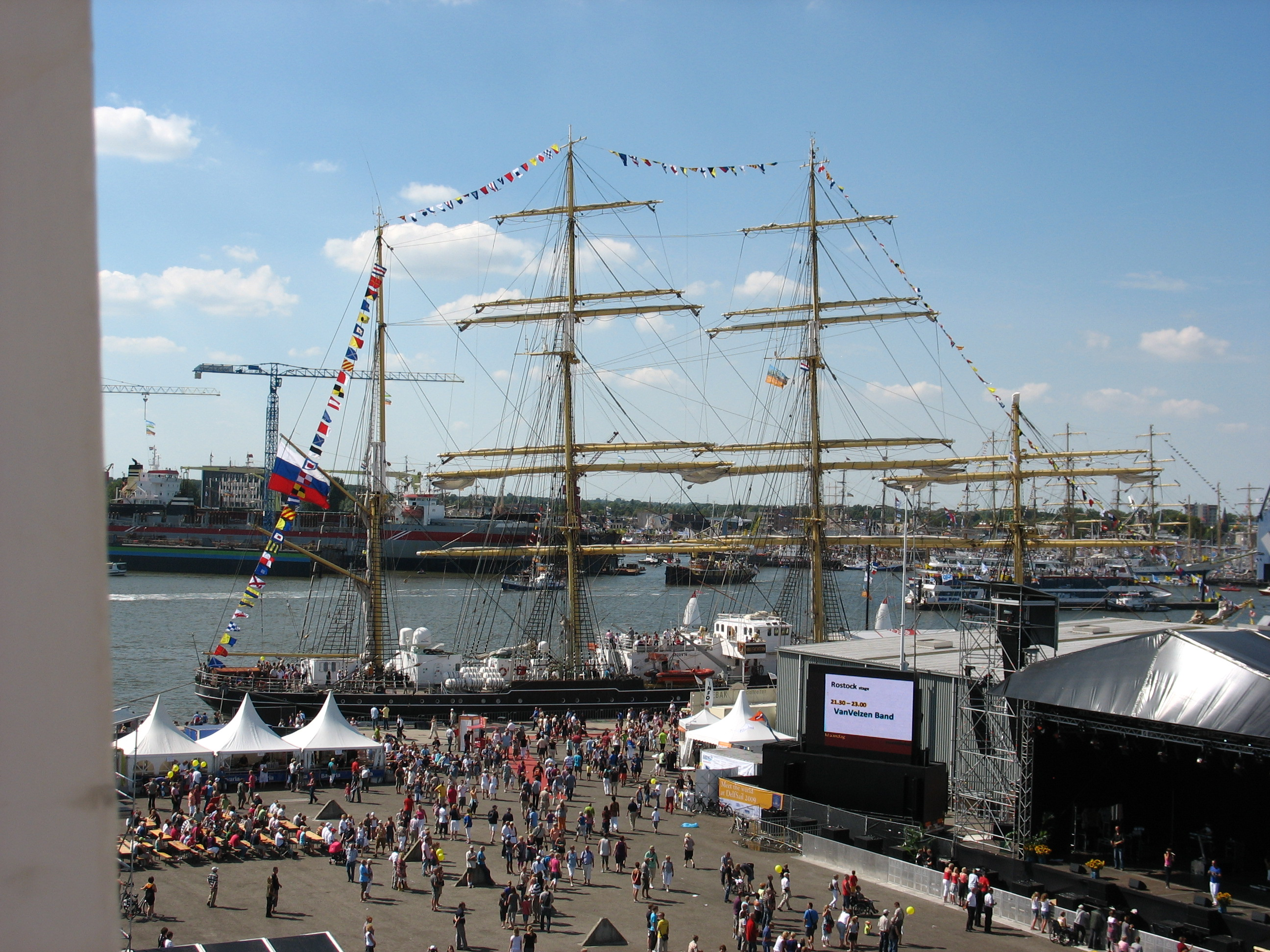 Picture taken during Delfsail, a 5-yearly sailing event (the largest one of The Netherlands) in the town of Delfzijl, a town in the northeast of the province of Groningen. The picture is taken out of a ferris wheel.